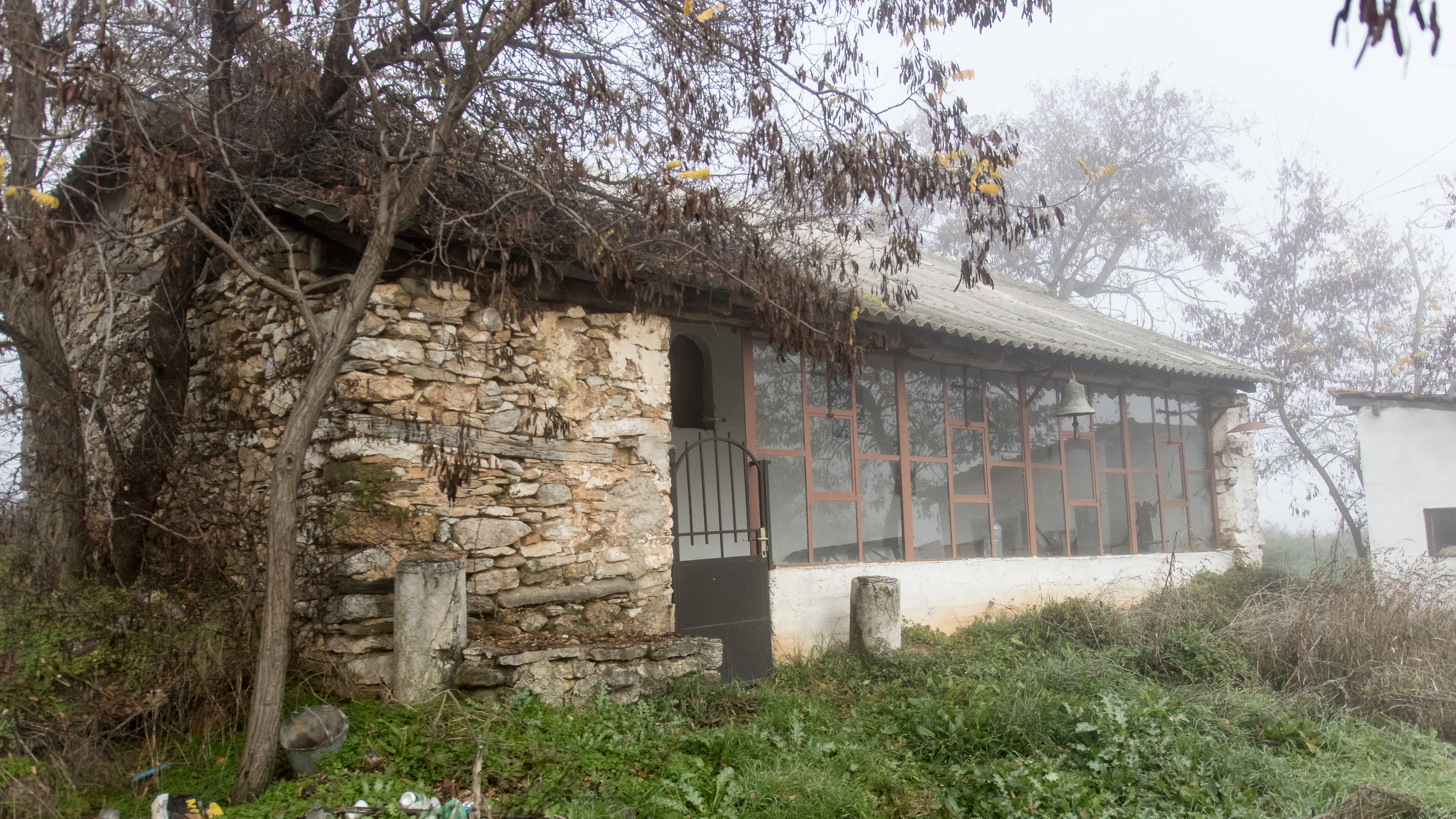 Vie of the Church of the Ascension of Christ in Gorno Čičevo.